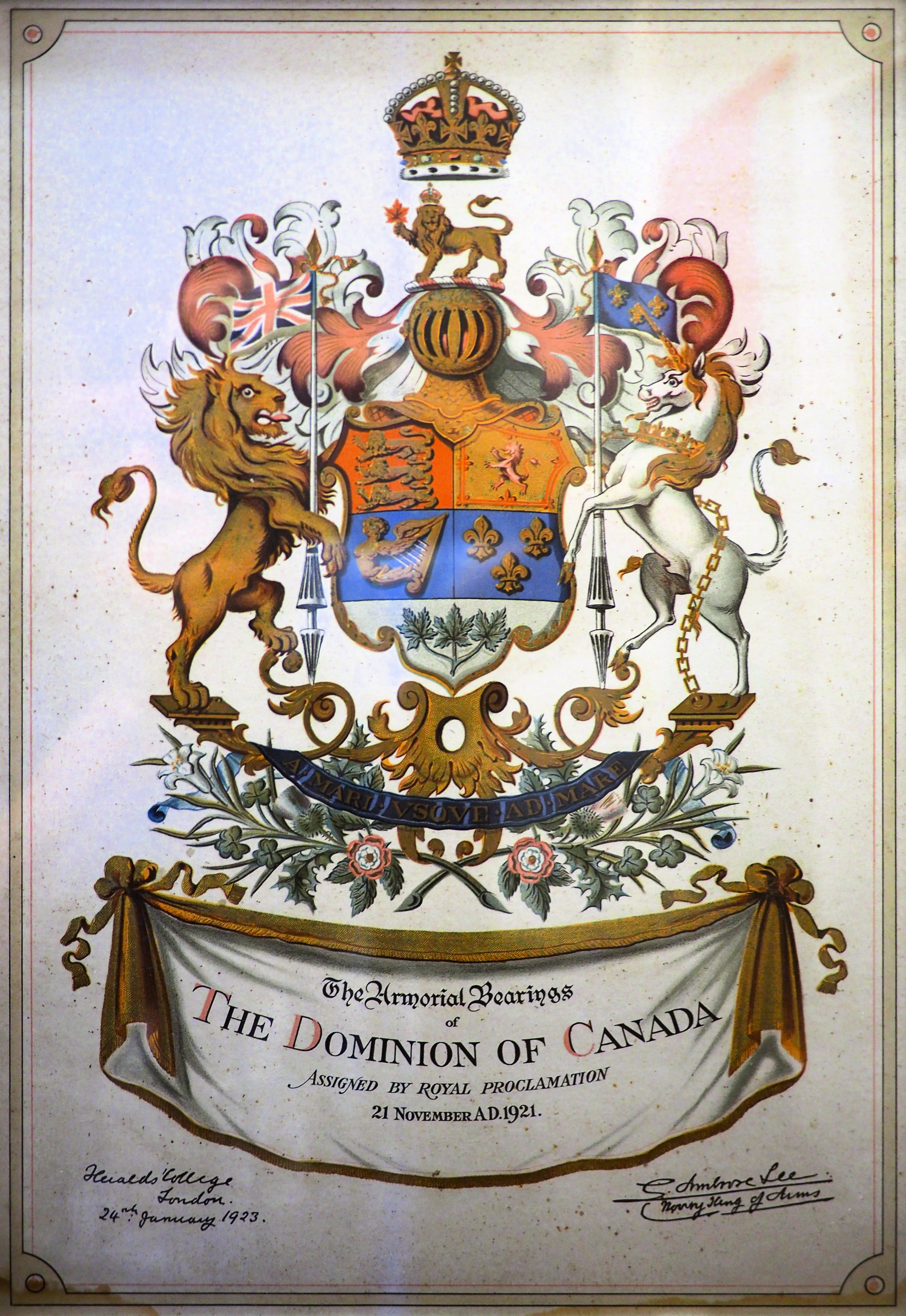 The Coat of Arms of Canada as depicted in 1923. The shield was created by a Royal Warrant in 1921, thus out of Canadian Copyright.